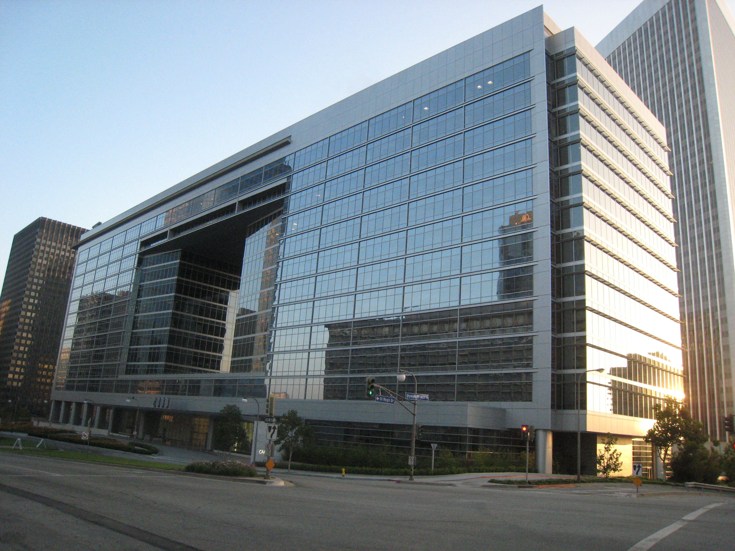 Creative Artists Agency (CAA) building in Century City, California. Commonly referred to as The Deathstar within the industry.